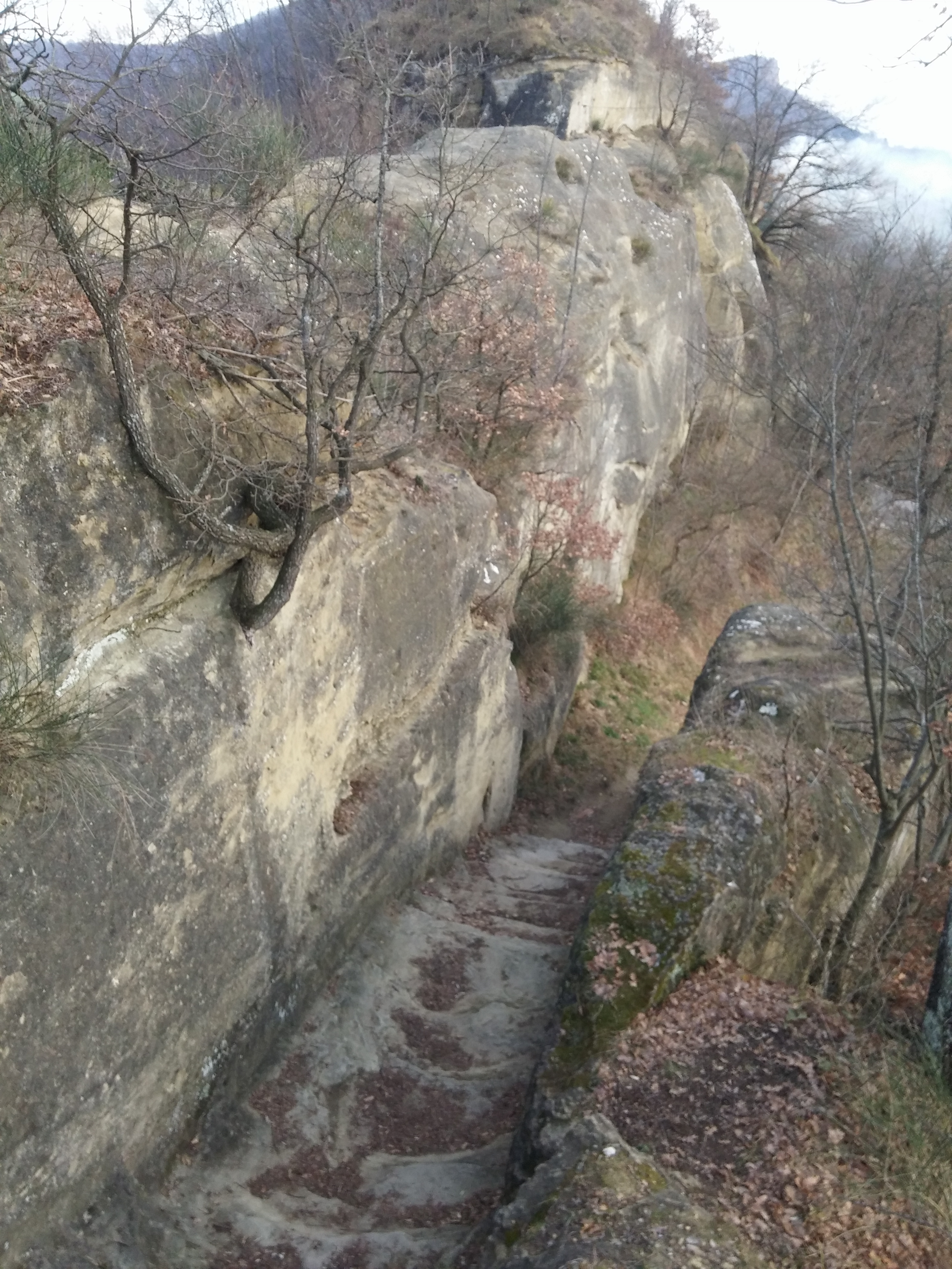 stairway on the rock